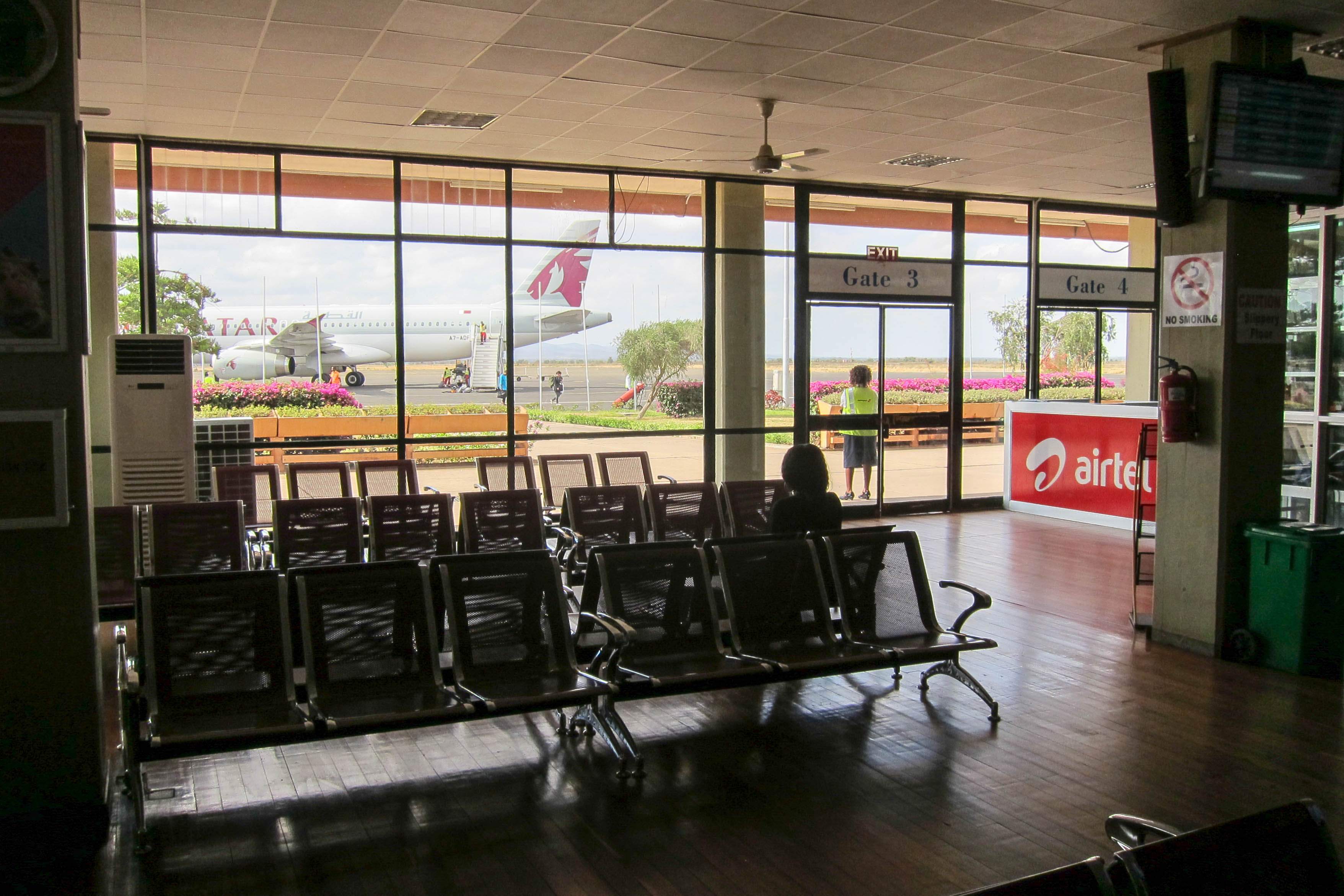 Kilimanjaro Airport Boarding Gates